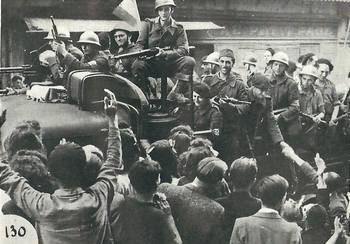 Liberation of Castres, Robert Gamzon's Unit